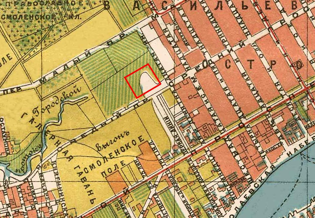 Location of the future Vasileostrovsky tram depot indicated on an old map of Vasilyevsky Island, Saint Petersburg, Russia.